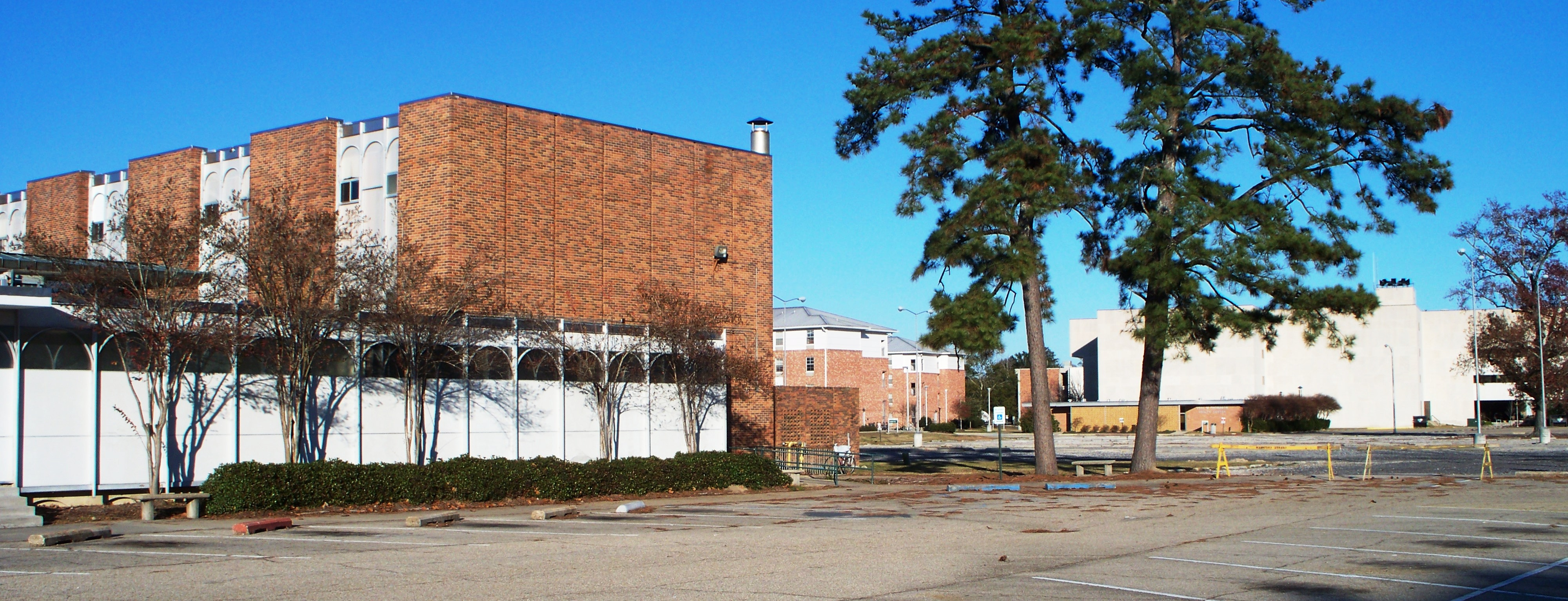 Part of the Southeastern campus, looking east: Zachary Taylor Hall (foreground), Saint Tammany and Tangipahoa residence halls (middle), Linus A. Sims Memorial Library